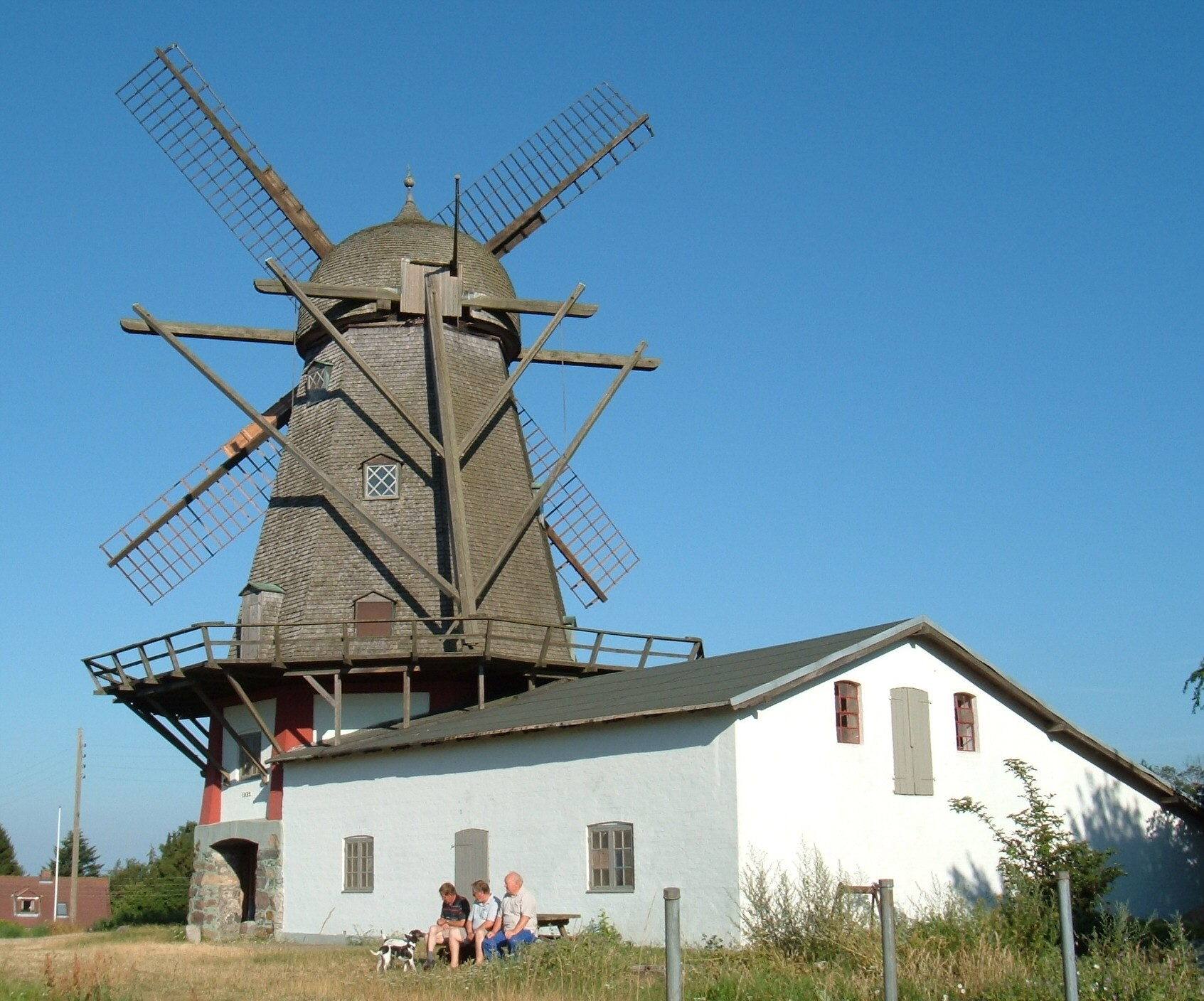 Old mill on the island of Bogø, south eastern Denmark. Taken by contributor, July 2006.